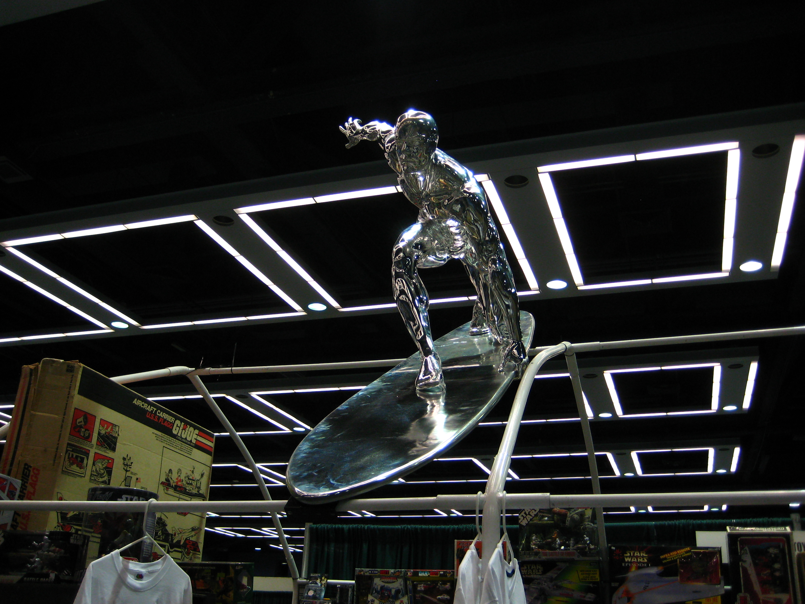 A statue of the comic character Silver Surfer at the Emerald City ComicCon, in Seattle 2008